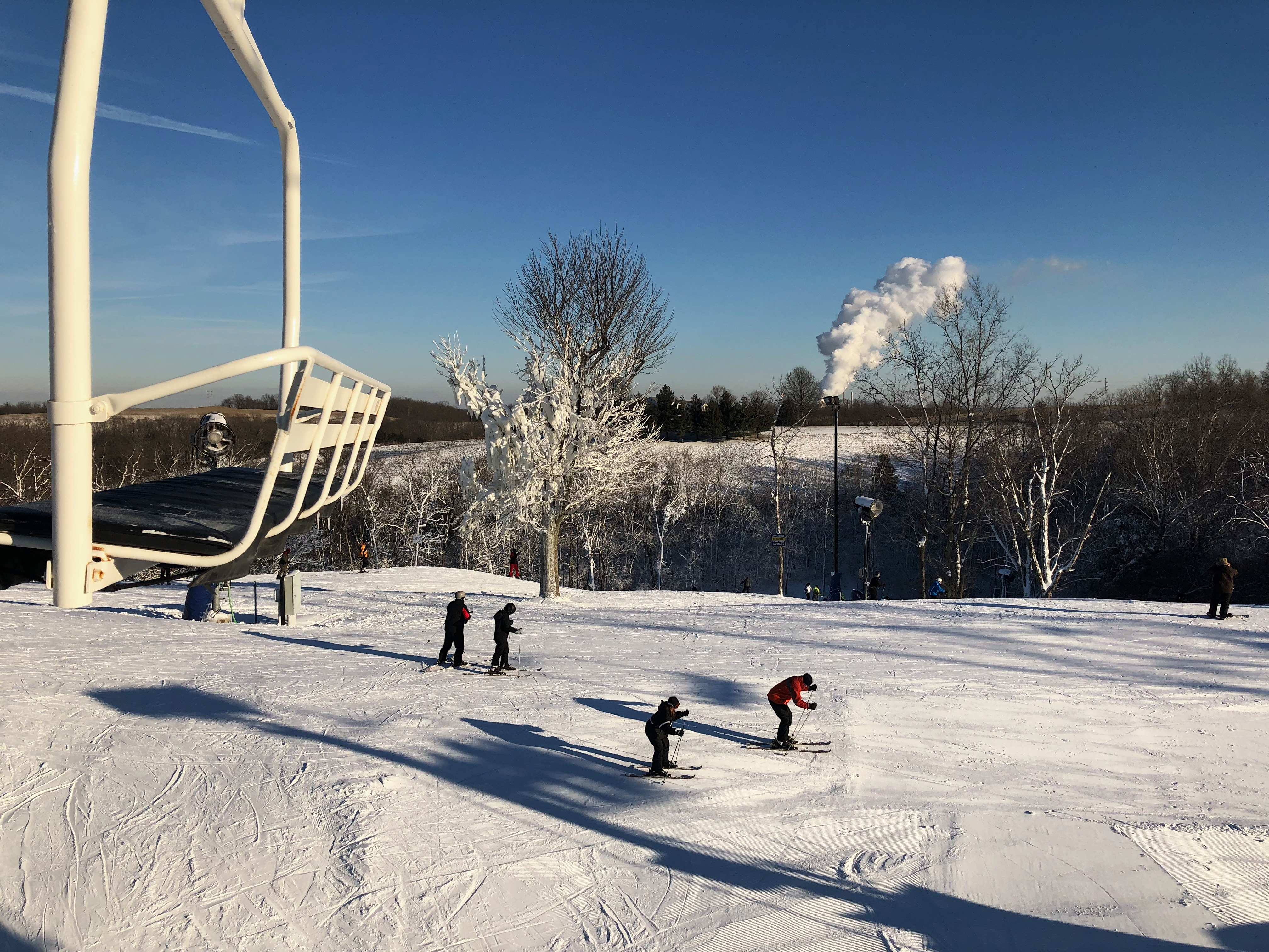 Ski resort in Lawrenceburg, Indiana